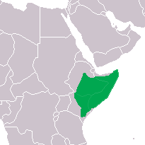 Distribution of the Naked Mole Rat (Heterocephalus glaber) in East Africa